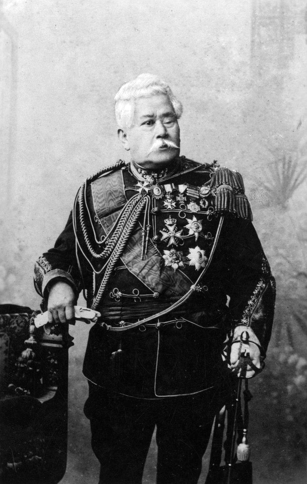 General van der Heijden